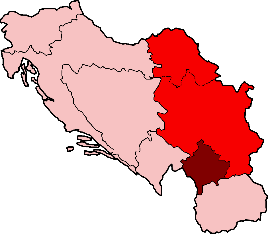 Map of the Kosovo Socialist Autonomous Province of the Socialist Republic of Serbia under the Socialist Federal Republic of Yugoslavia